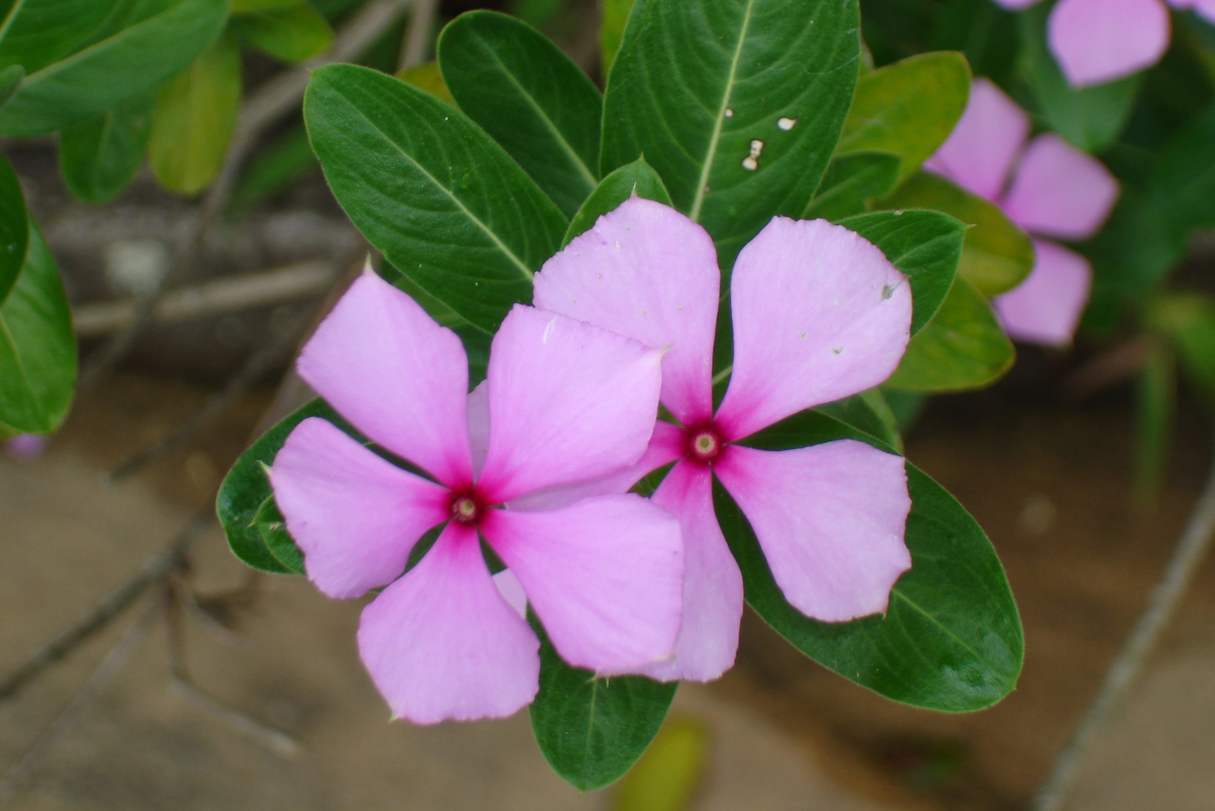 Catharanthus roseus (Boa noite) Origin: Brazil Date:03-03- 2006 Autor: Eurico Zimbres Free for all use